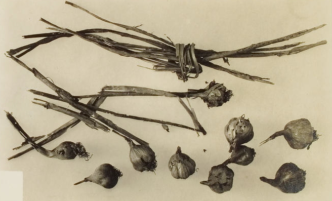 Harry Burton: Tutankhamun tomb photographs: a photographic record in 5 albums containing 490 original photographic prints ; representing the excavations of the tomb of Tutankhamun and its contents. Vol. 2